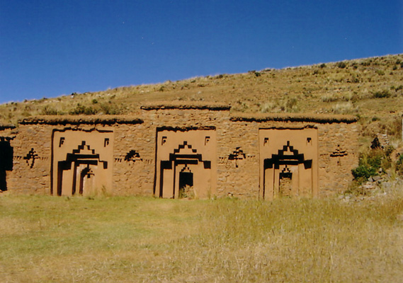 Moon Island's temple (Isla de la Luna), at Titikaka Lake, Bolivia Photo by Sylvio Martins (WT-shared) Sylx100 14:08, 23 May 2007 (EDT).